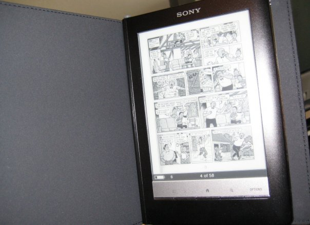 Sony Touch Reader PRS 600 displaying a comic